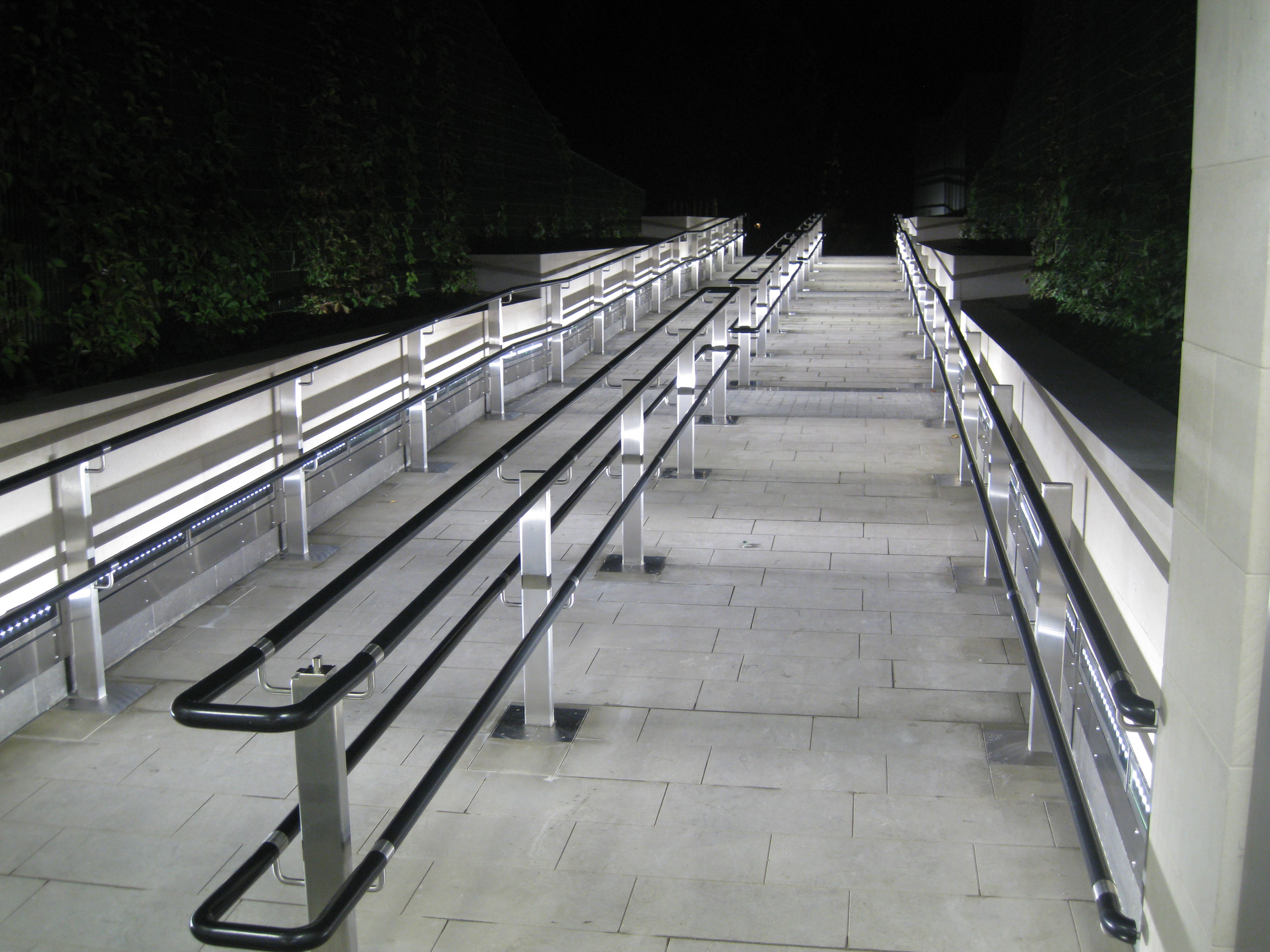 New ramped entrance from Green Park into Green Park station for level access